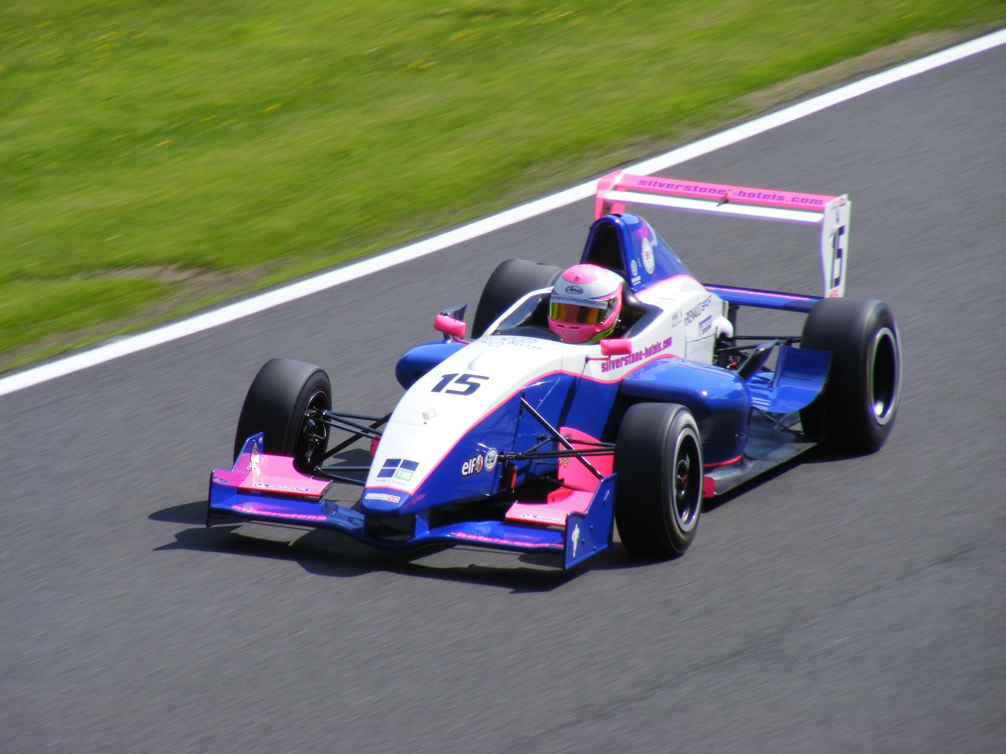 Alice Powell climbs Clay Hill at Oulton Park during a qualifying session.